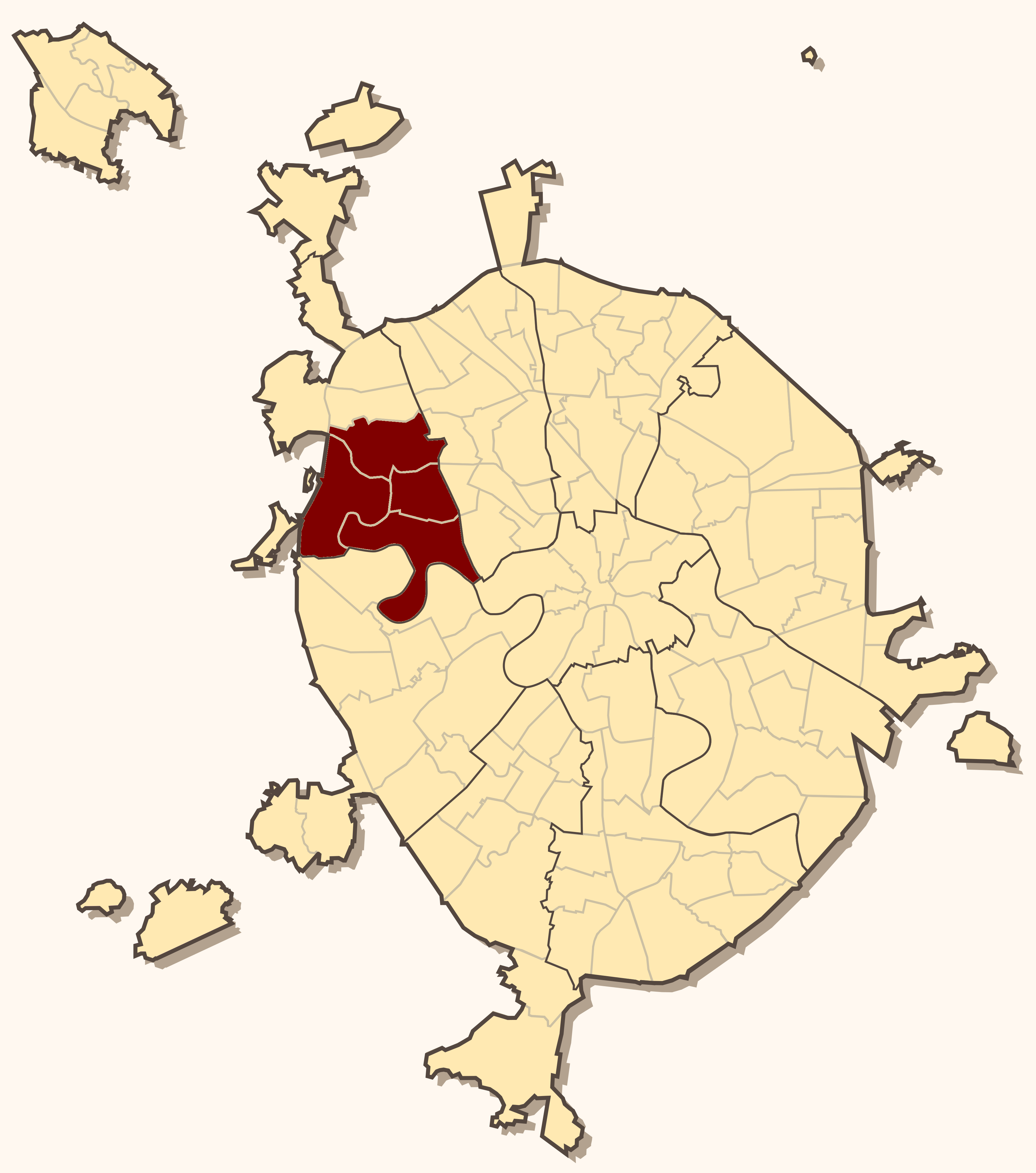 Map of Uspenskoe Blagochinie of Moscow